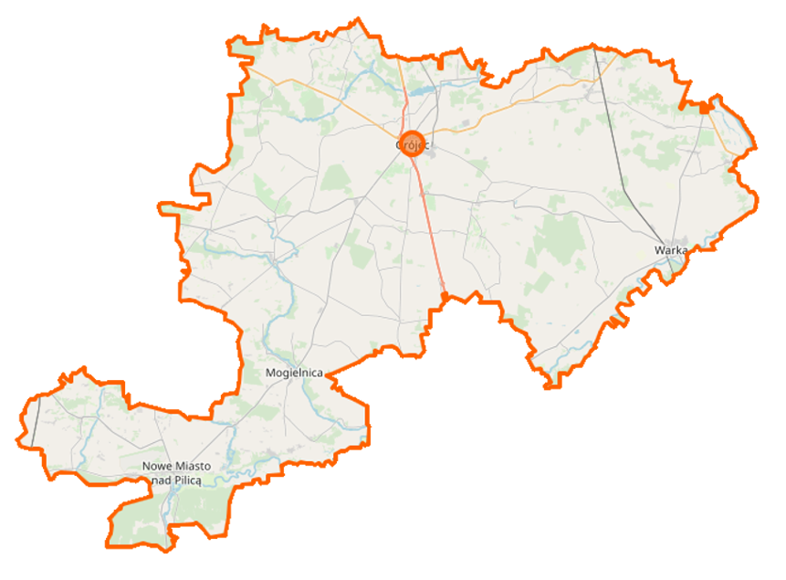 Map of Powiat grójecki, Poland This map of Powiat grójecki was created from OpenStreetMap project data, collected by the community. This map may be incomplete, and may contain errors. Don't rely solely on it for navigation.